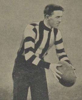 Photograph of Dave O'Donoghue in 1910